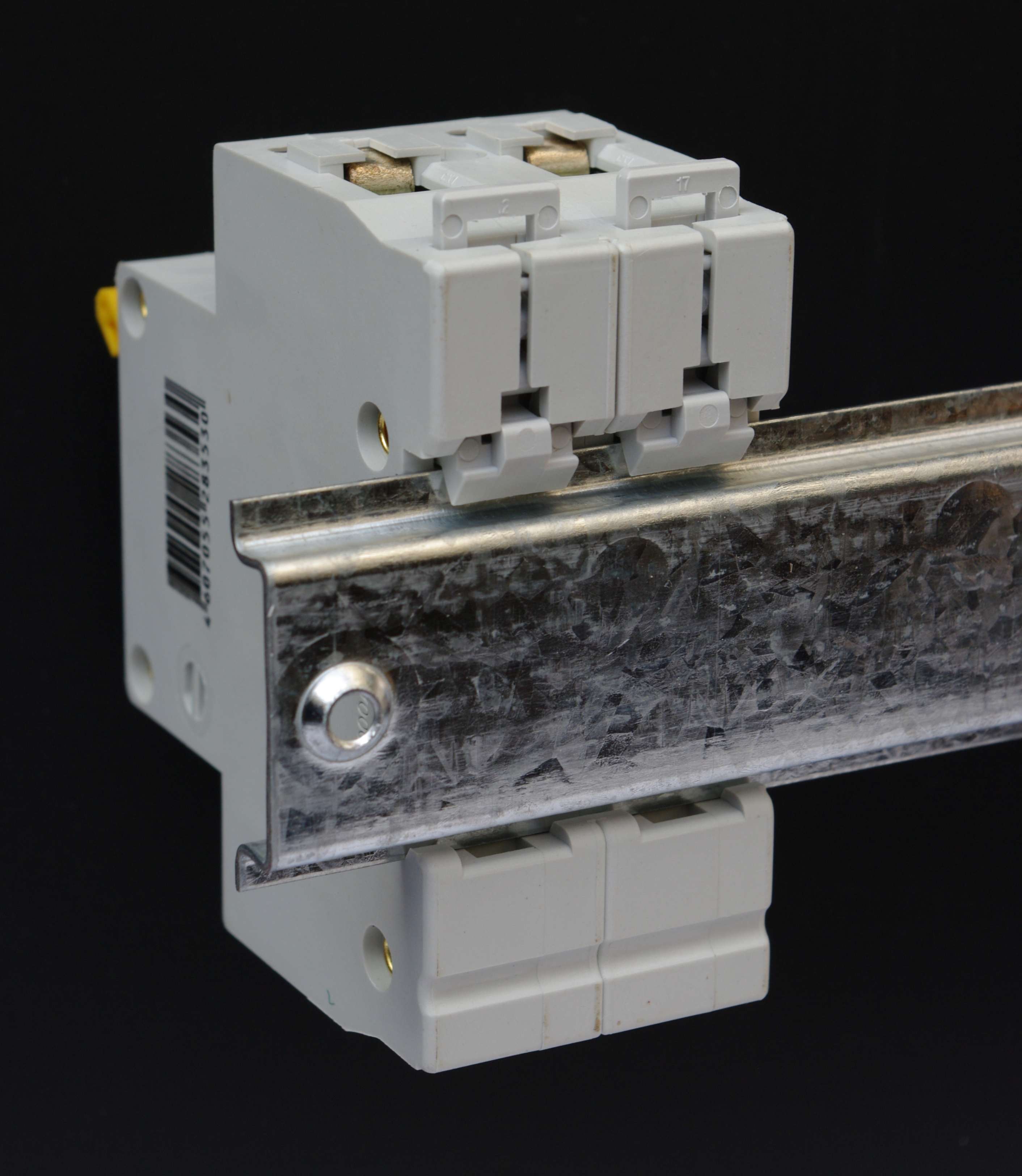 DIN rail with mounted 2 pole circuit breaker. Rear view. Сircuit breaker is displayed upside-down for better view of latches.